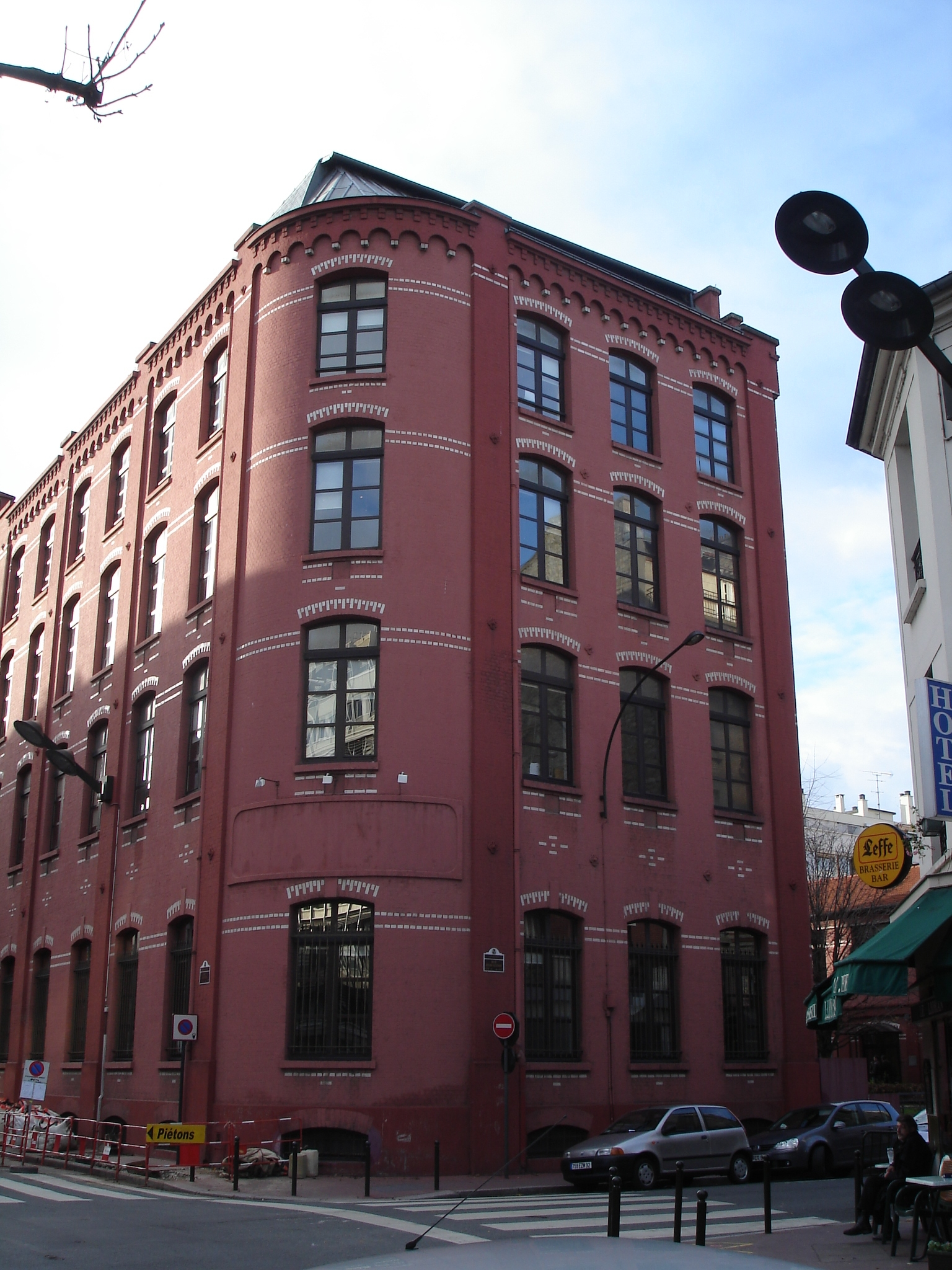 Indusrial building, built in 1907; 83 rue Baudin in Levallois-Perret, suburb of Paris. First used by Delage, the old car manufacturer, then by the chocolate manufacturer François Meunier, then by the watch and avionic control electronics maufacturer Jaeger. Presently, offices.